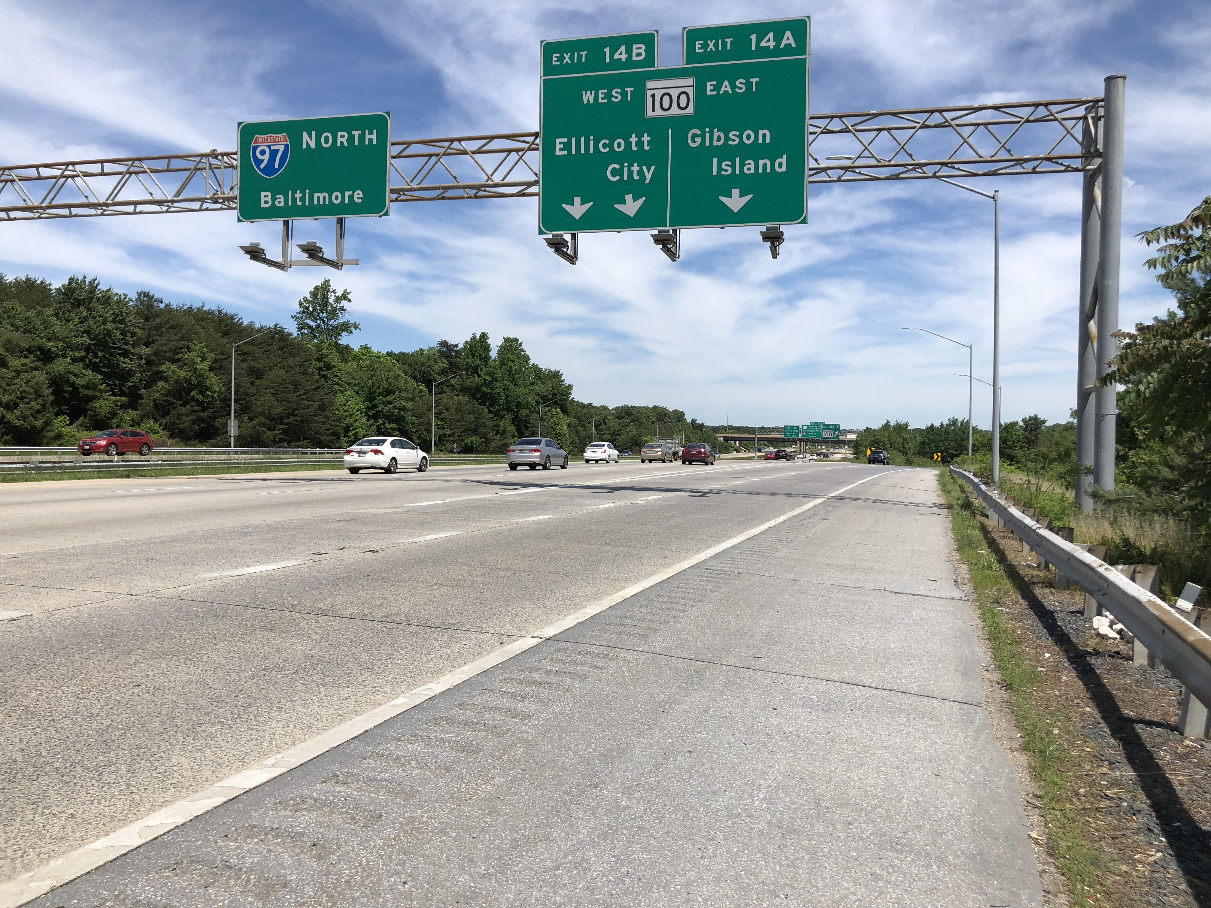 View north along Interstate 97 (Glen Burnie Bypass) at Exit 14 (Maryland State Route 100, Ellicott City, Gibson Island) on the edge of Severn and Glen Burnie in Anne Arundel County, Maryland